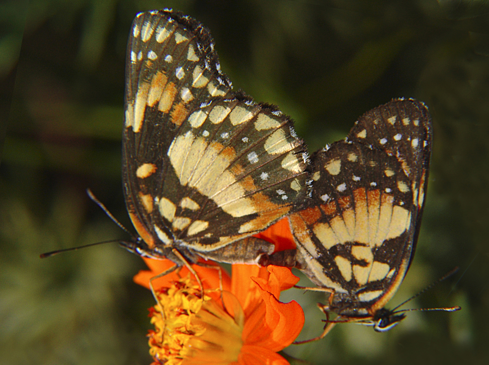 Butterflies Chlosyne lacinia mating on a flower